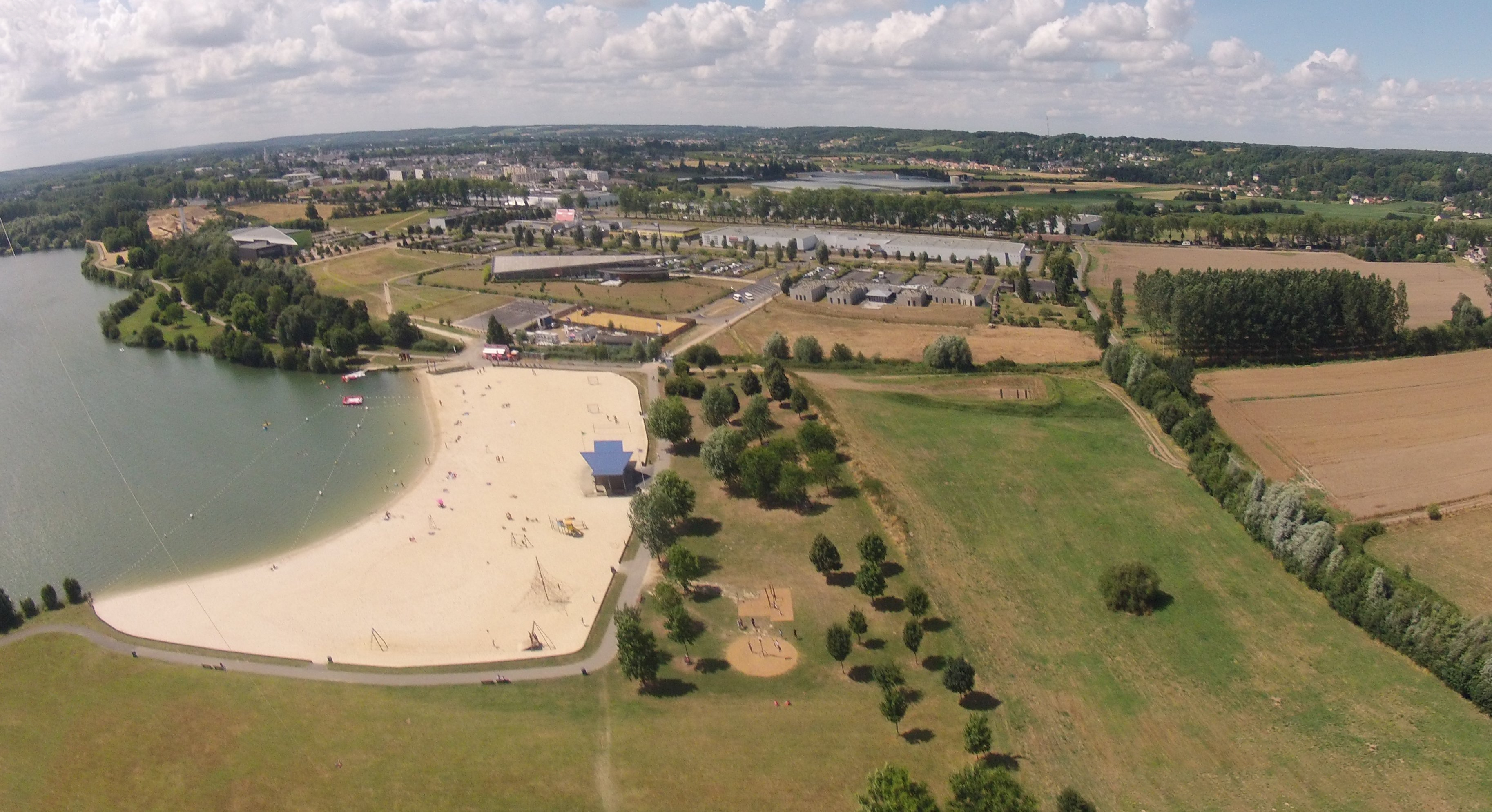 KAP - 29072013 - Base de loisir de la Monnerie